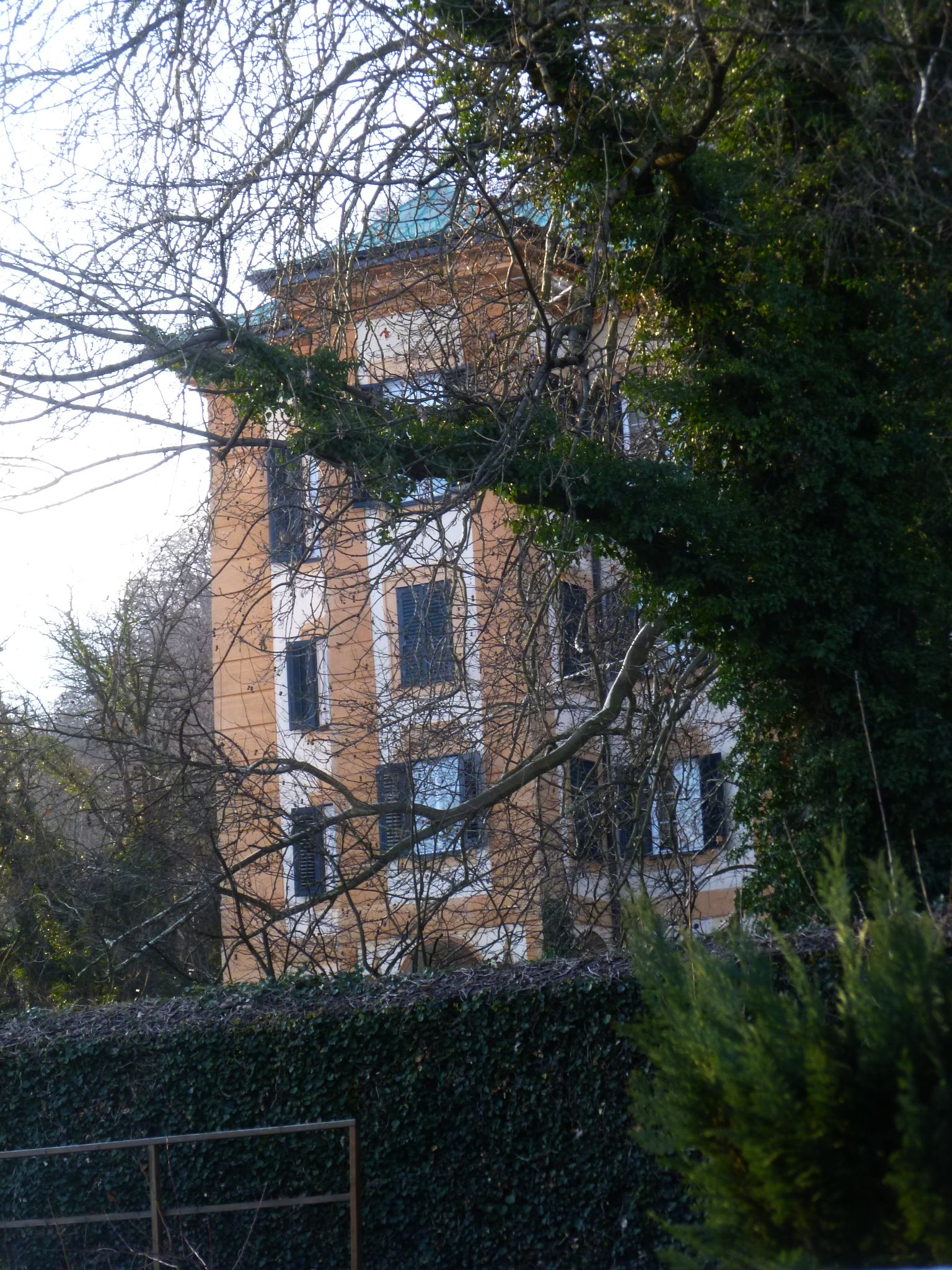 Schloss Elsenheim